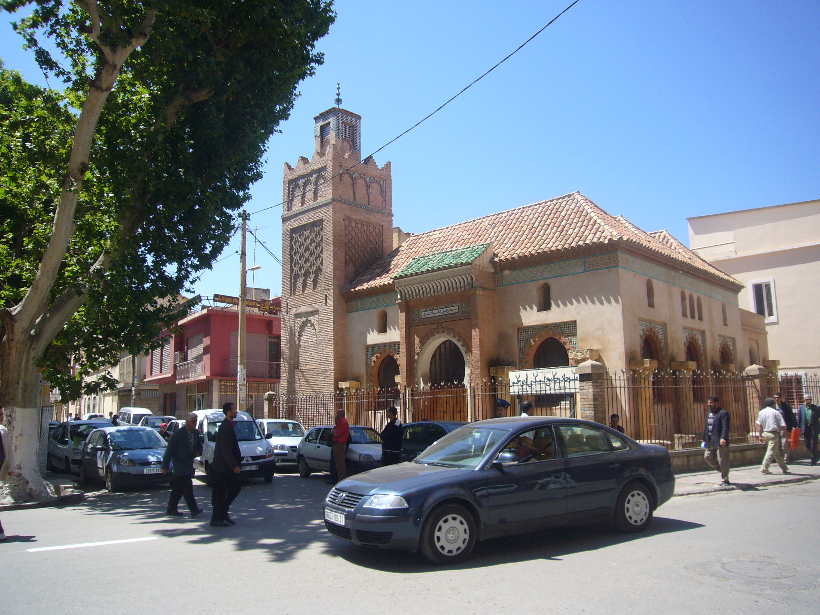 Abi El Hassen Mosque, Tlemcen (ex-museum)